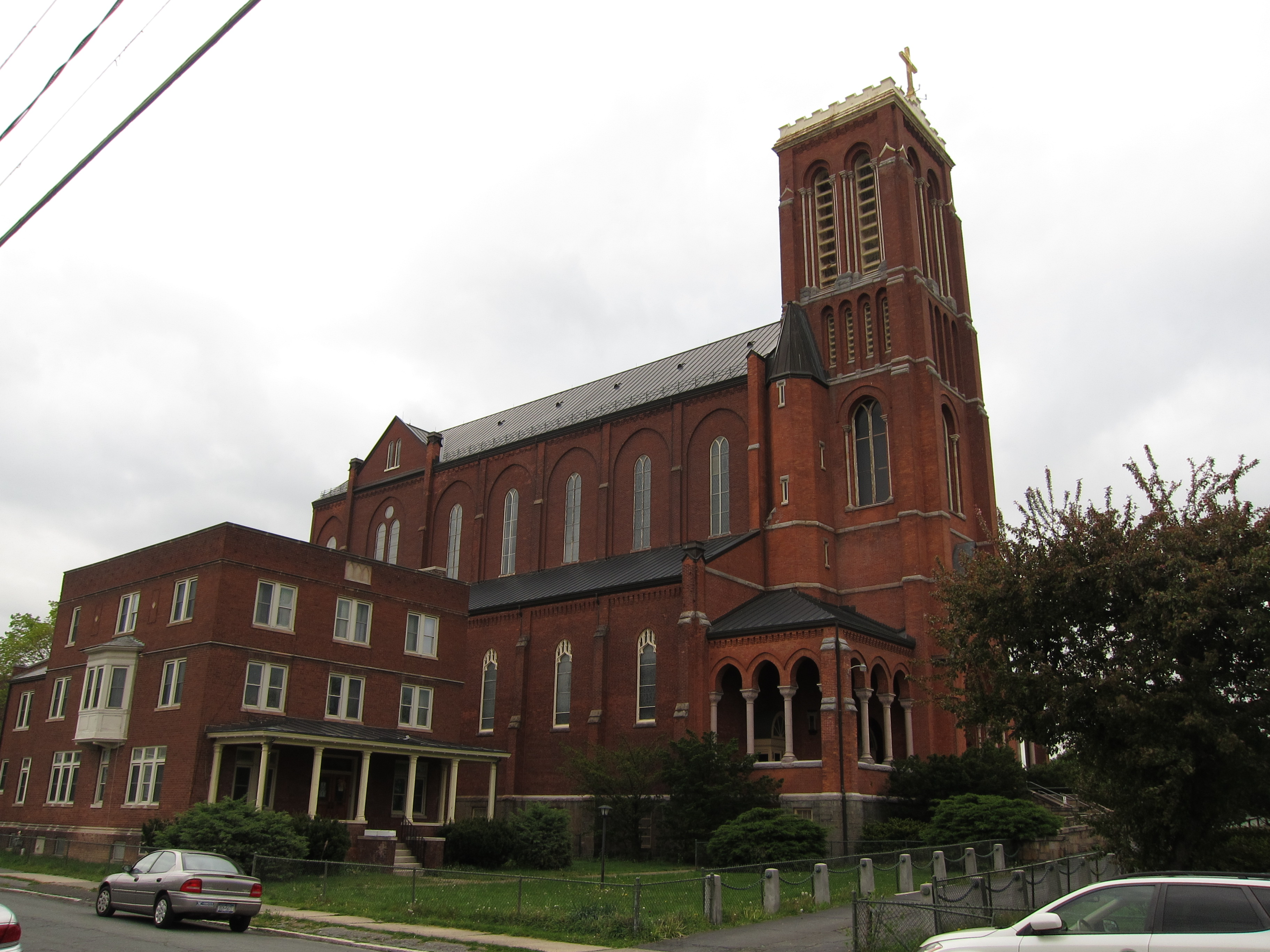 Church of St. Patrick (Watervliet, New York) - side view